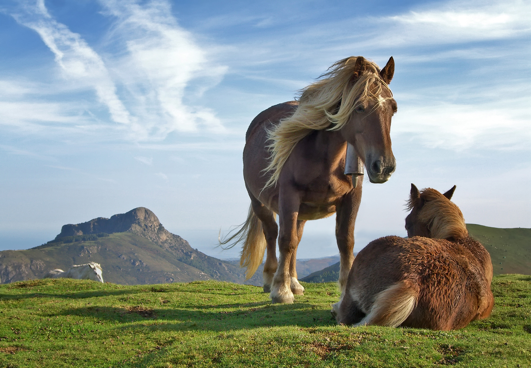 Horses on Bianditz mountain, in Navarre, Spain. Behind them Aiako mountains can be seen.